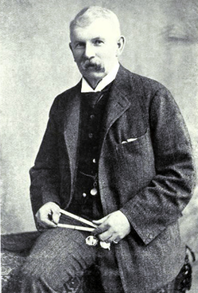 Robert William Llewellyn, owner of Court Colman, Wales